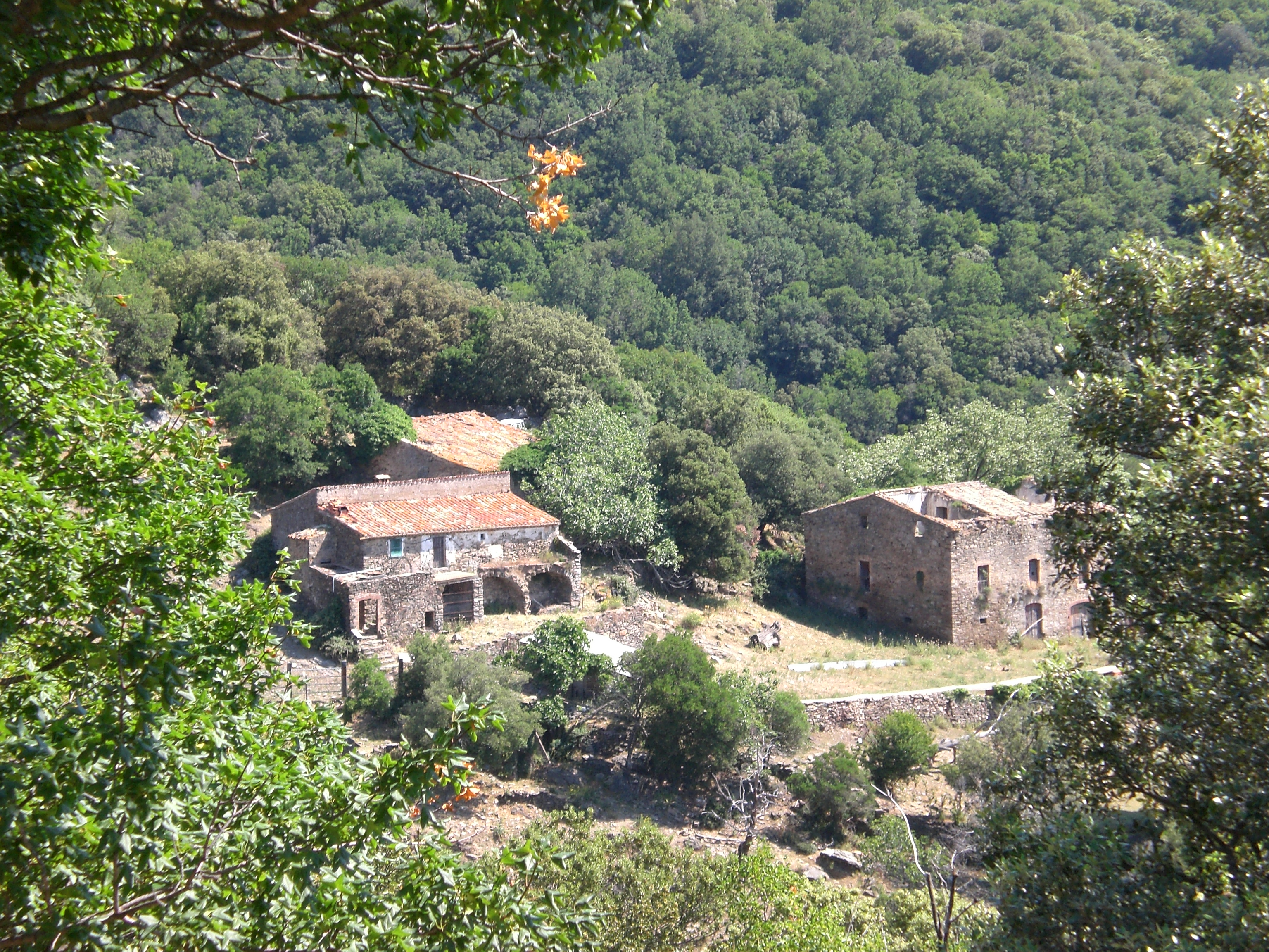 Mas de Can Joan Roig, sited in Espolla, Catalonia.